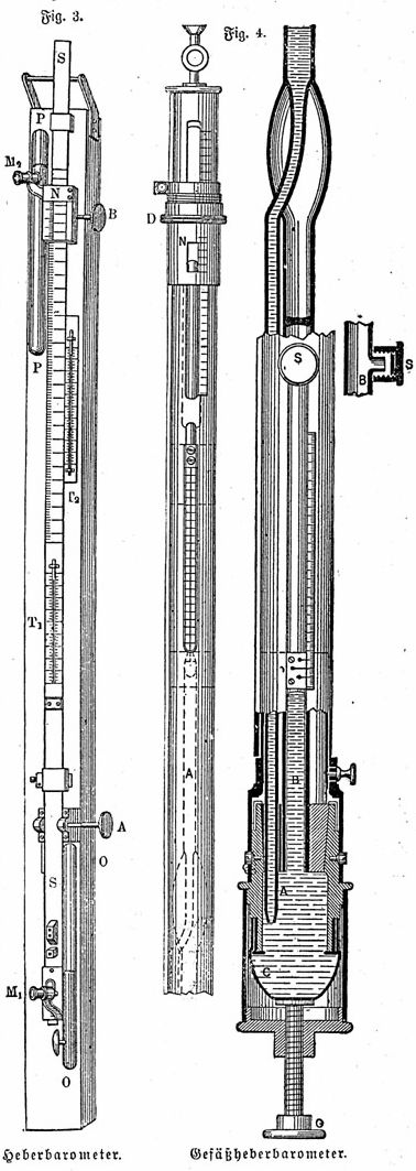 Various barometer